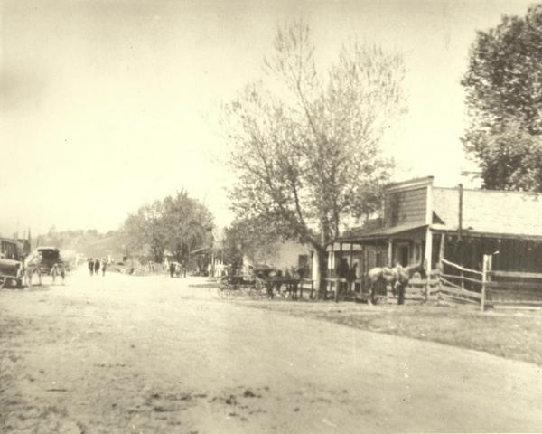 Pozo, California in the 1870s. The Pozo Saloon, which is still in business, is at the right.